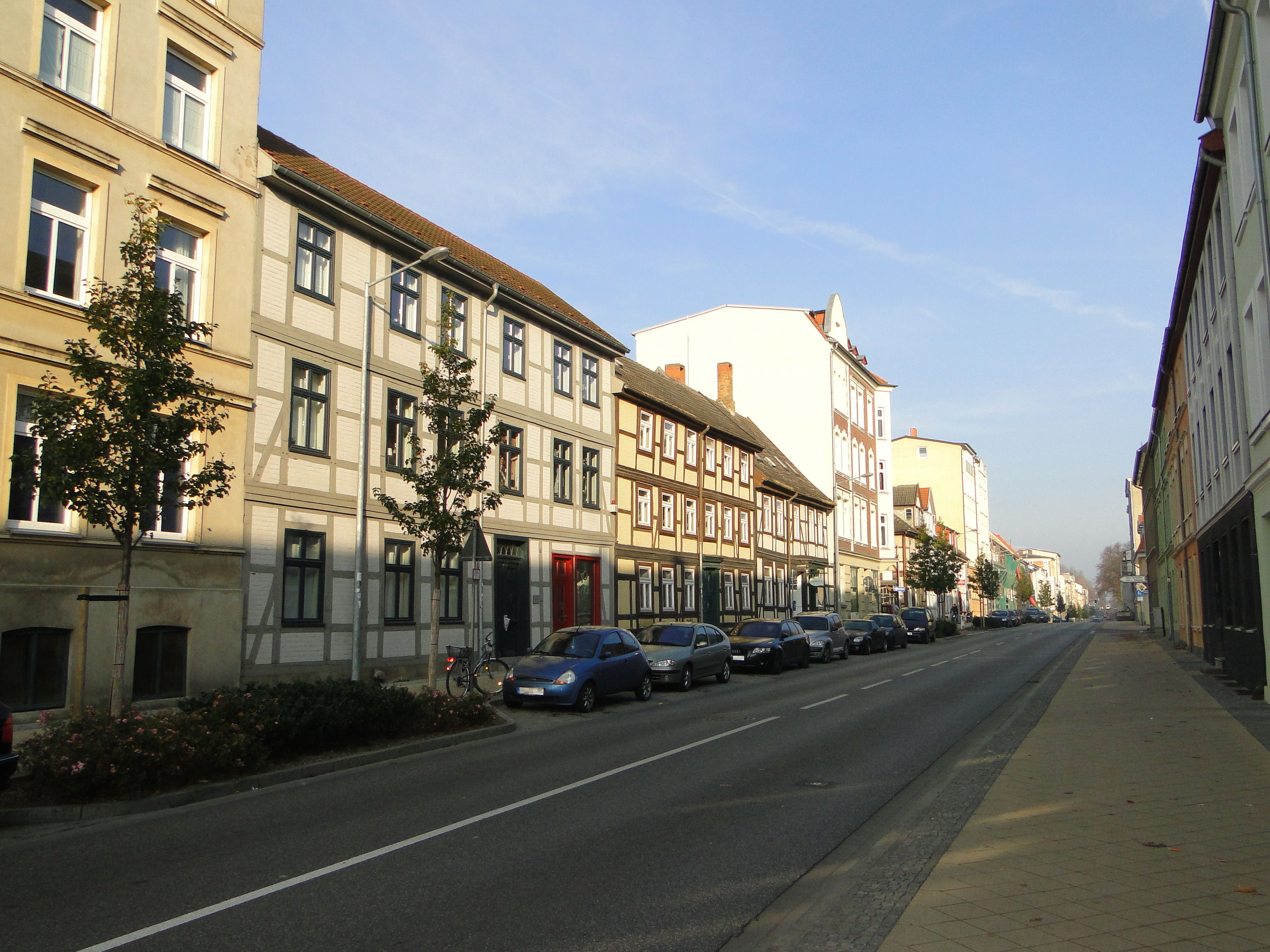 Street Werderstraße in Schwerin, Mecklenburg-Vorpommern, Germany